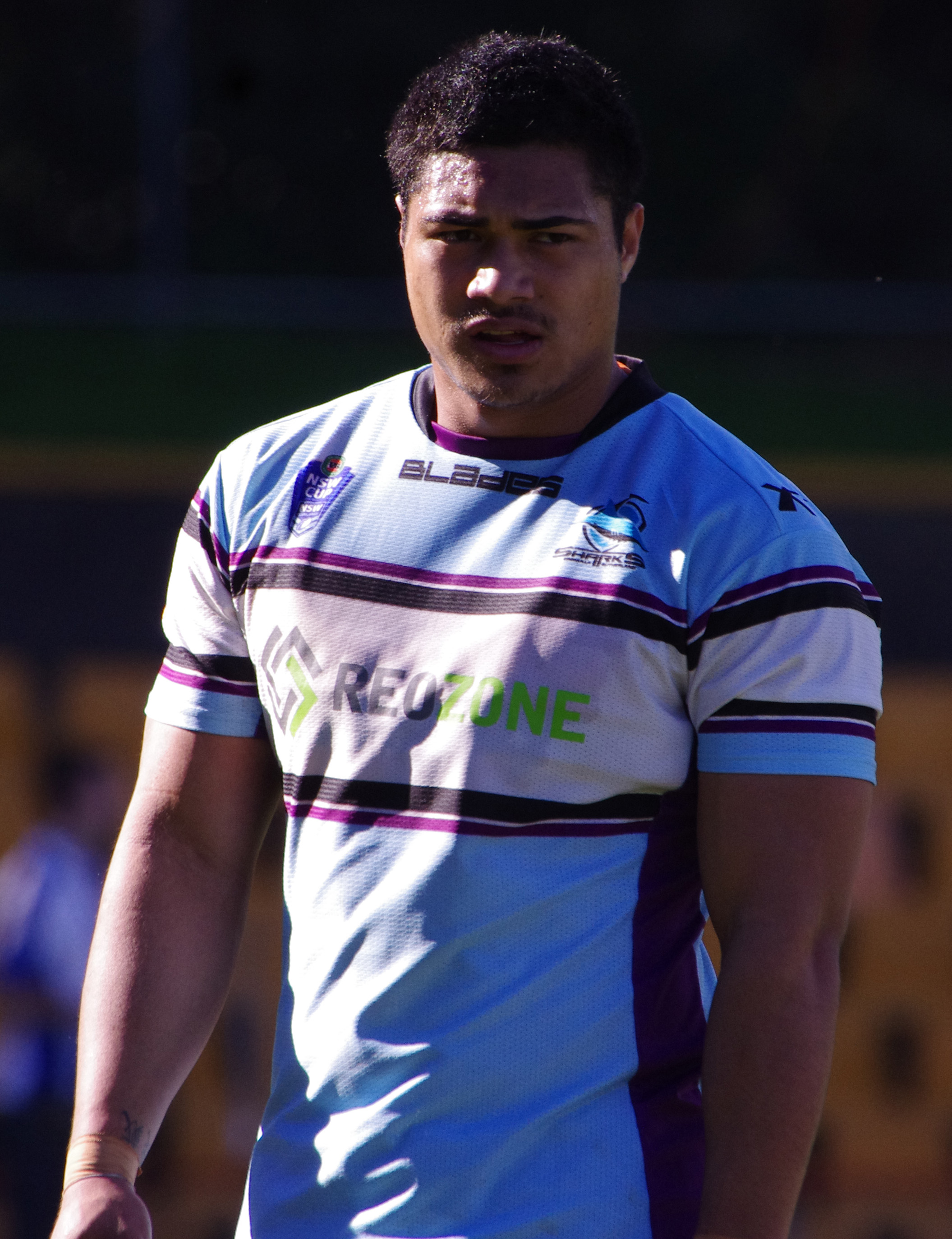 Kirisome Auva'a